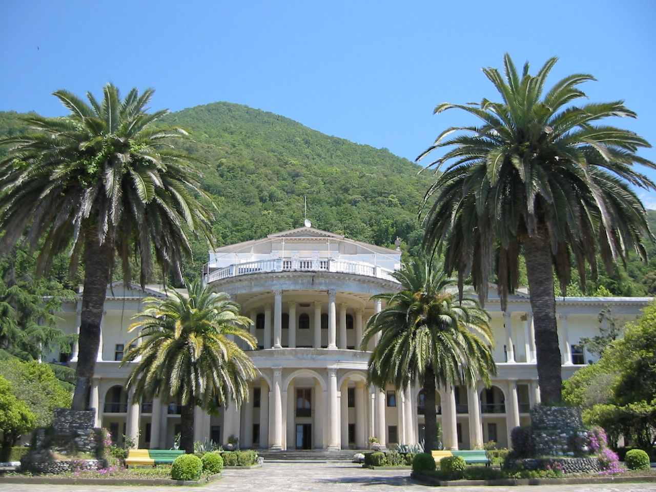 Gagra is a city in the Abkhazia, sprawling for 5 km on the northeast coast of the Black Sea, at the foot of the Caucasus Mountains. Its subtropical climate made Gagra a popular health resort in Imperial Russian and Soviet times.